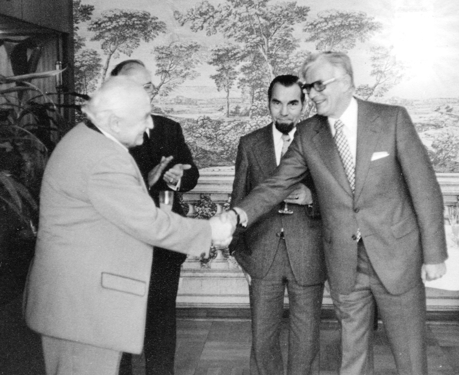 Ernst Lutterbeck (right) at the end of his laudation for Horst Teichmann, 1973 at a DGD-festive event in the company building of the Palmengarten in Frankfurt